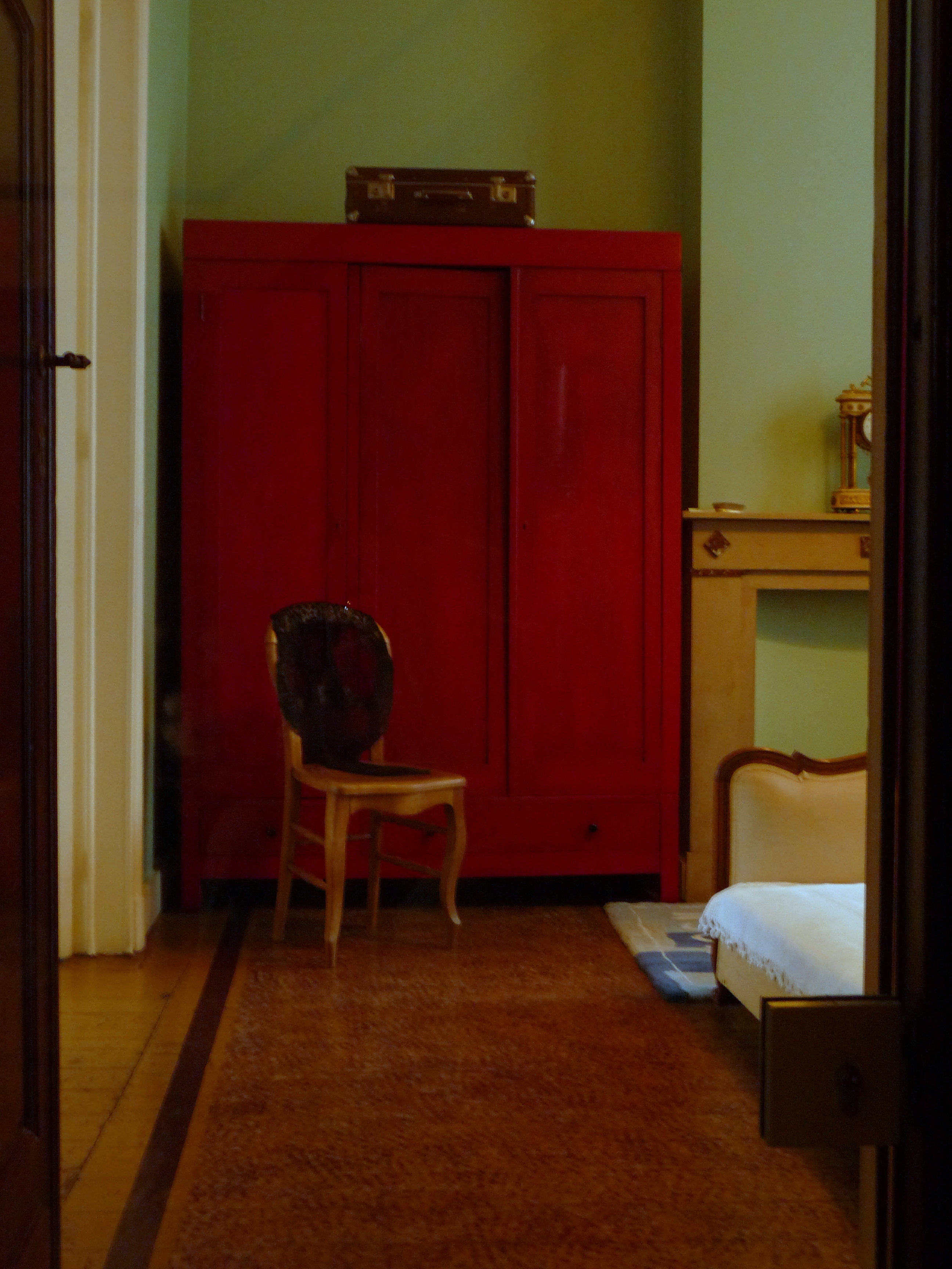 Musée René Magritte in Brussels, interior